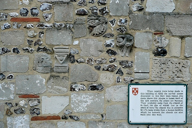 Wall on St. George's Street The plaque gives all the details. It says "When repairs were being made to this building in 1959 the carved stones displayed in this wall were found. One stone above this plaque is Saxon work of the 9th century. The others are Norman. They probably came from the church of St. Ruel, the site of which lies to the south of here. The church was in existence by 1172. Some bricks from a Roman building which lay beneath the church are also built into this wall".